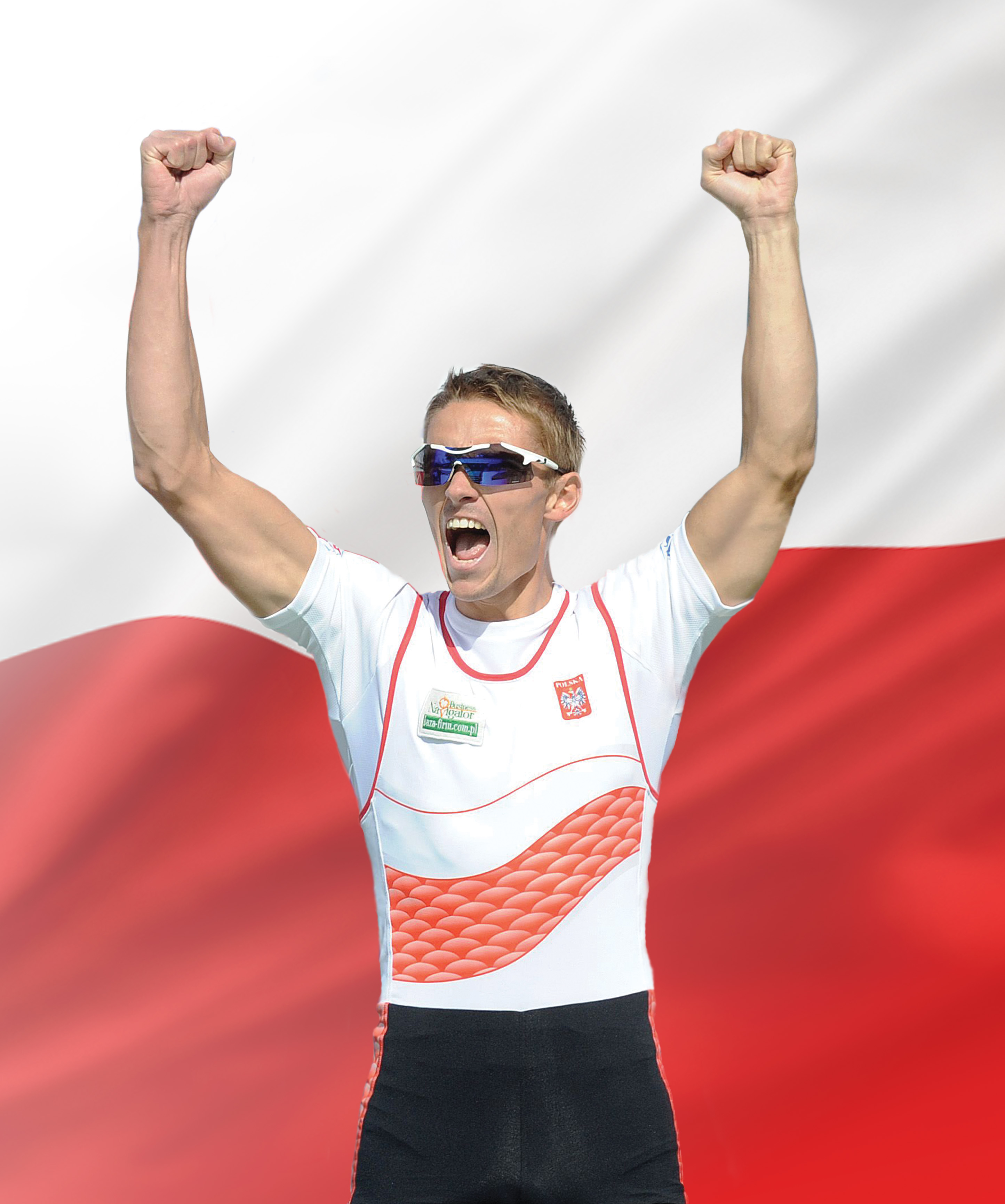 Rower of AZS Politechnika Wrocławska, Paweł Rańda, after winning olympic bronze in 2008